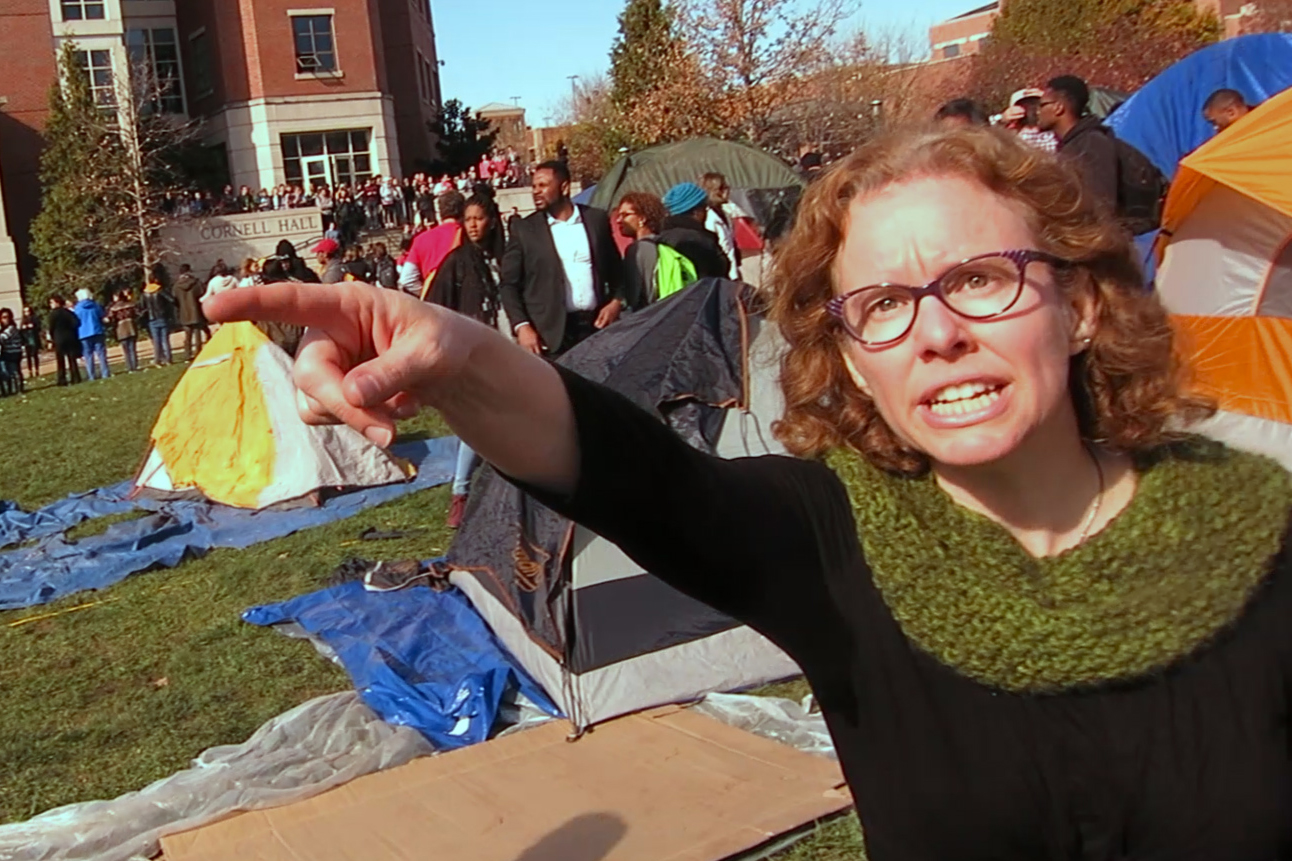 Prof. Melissa Click tells me, "you need to get out."